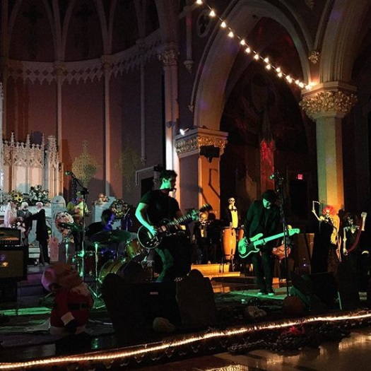 The Skullers at Cathedral Hall, Jersey City, New Jersey, Halloween Show 31 October 2016.